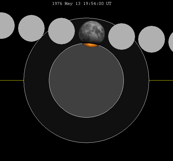 May 1976 lunar eclipse chart of moon's path through the earth's shadow. thumb